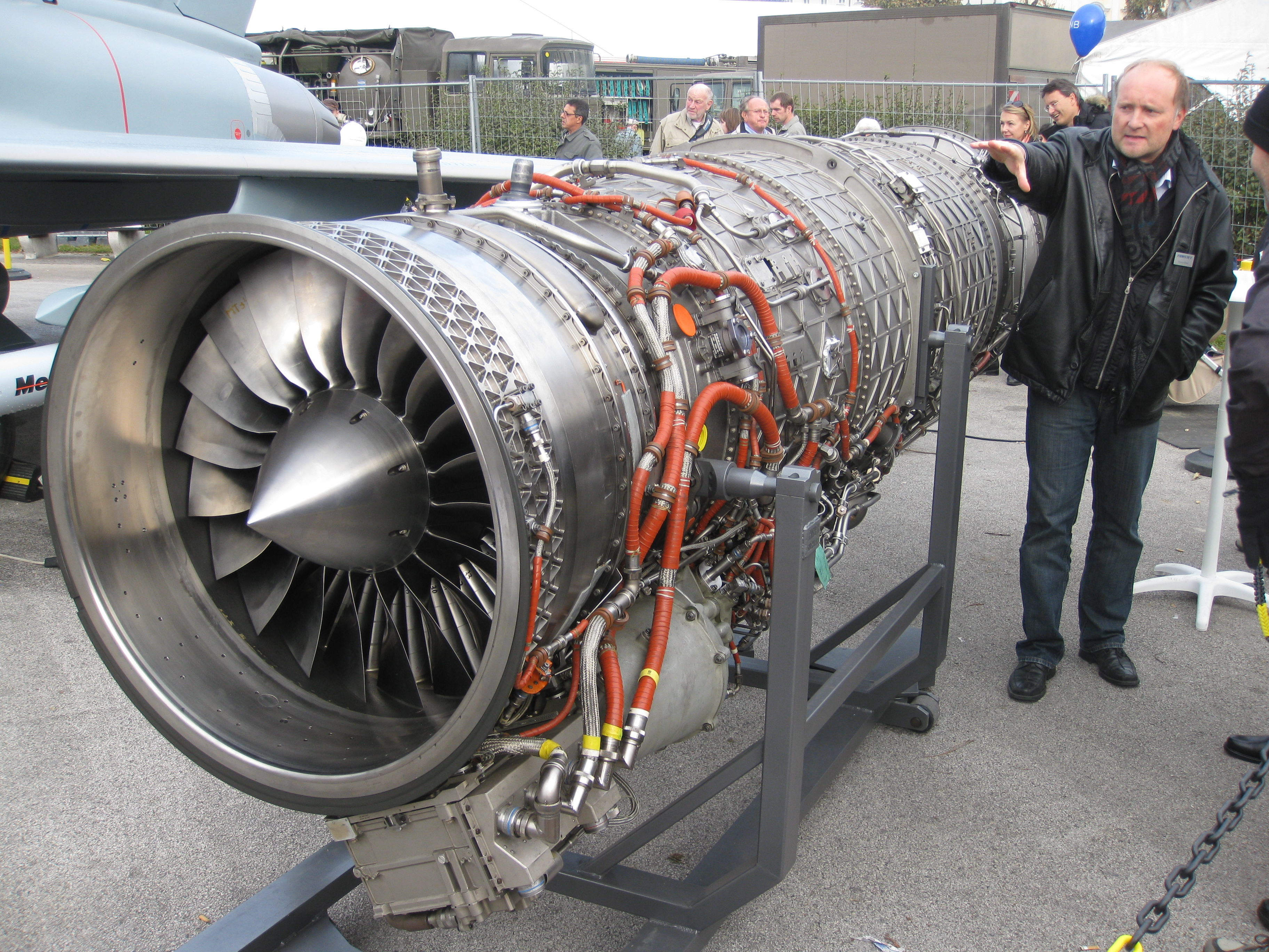 A Eurojet EJ2000 on display next to a Eurofighter mock-up on the Heldenplatz for the Austrian National Holiday.